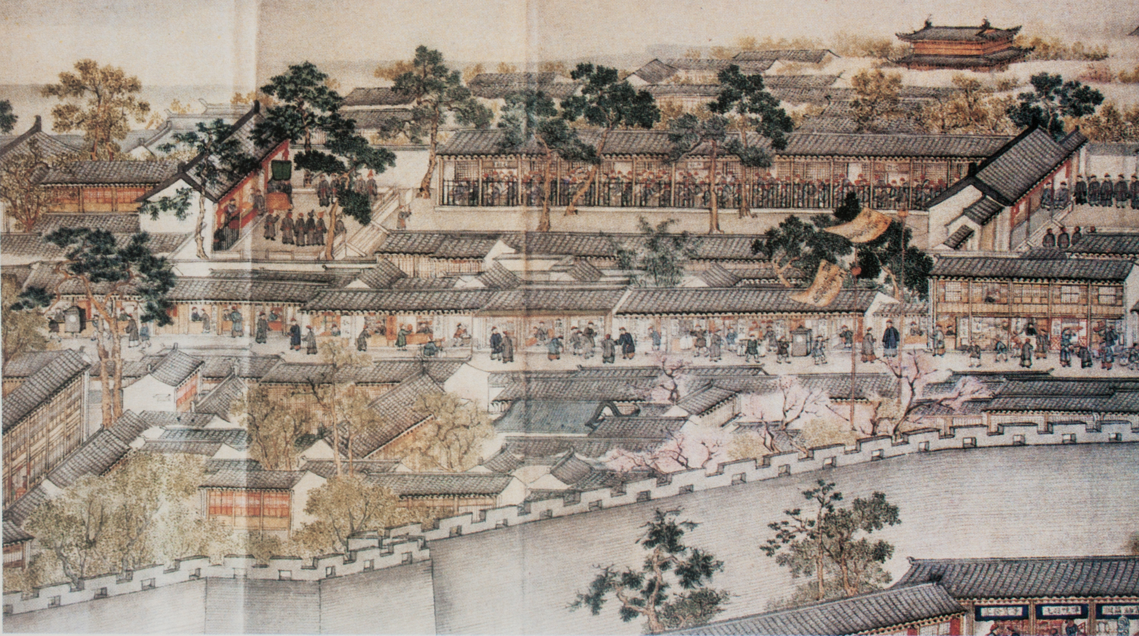 Detail of scroll about Suzhou made on the order of Emperor Qianlong